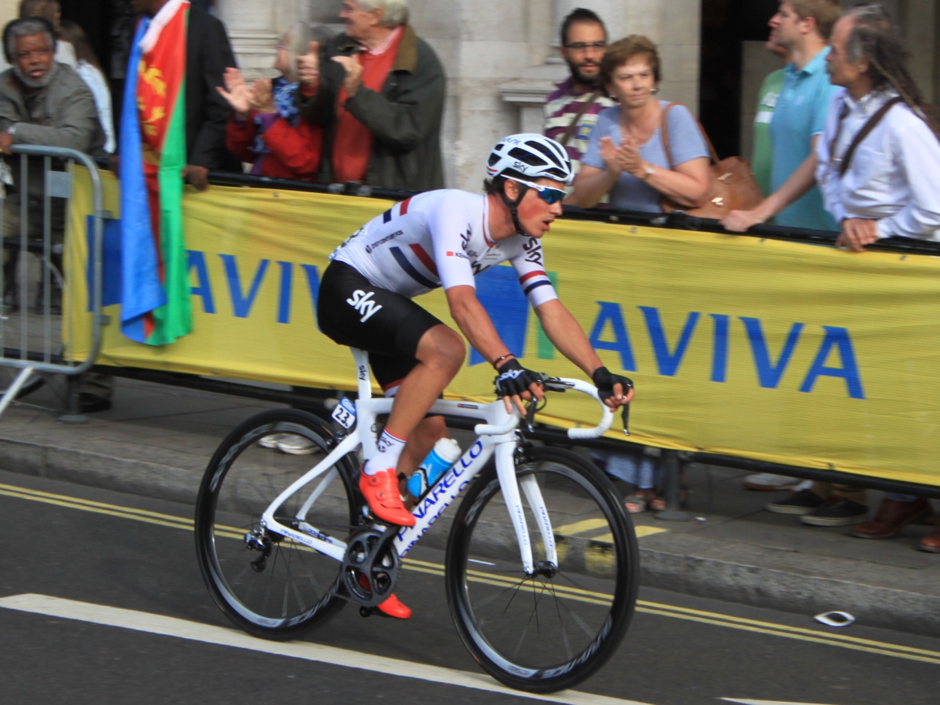 Peter Kennaugh, the British road race champion riding through London during the final stage of the 2015 Tour of Britain.